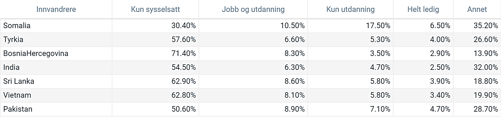 2018, SSB labour and education statistics minorities in Norway, 16 - 39 years. 1 generation.